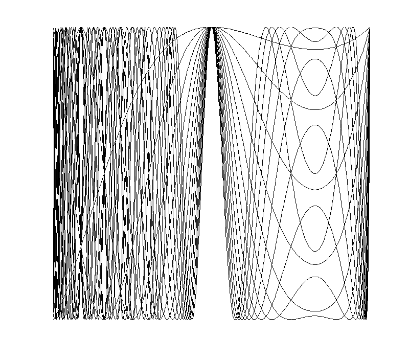 Carotid-Kundalini functions. Matlab code to generate the image can be found at